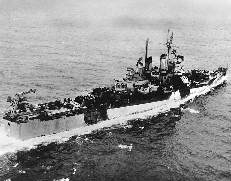 The U.S. Navy light cruiser USS Vincennes (CL-64) steaming off the U.S. East Coast at 1700 hours on 28 March 1944 (course 265). The ship is painted in Camouflage Measure 33, Design 3D. The photo was taken from a Squadron ZP-14 blimp, from Naval Air Station Weeksville, North Carolina (USA), altitude 150 feet.